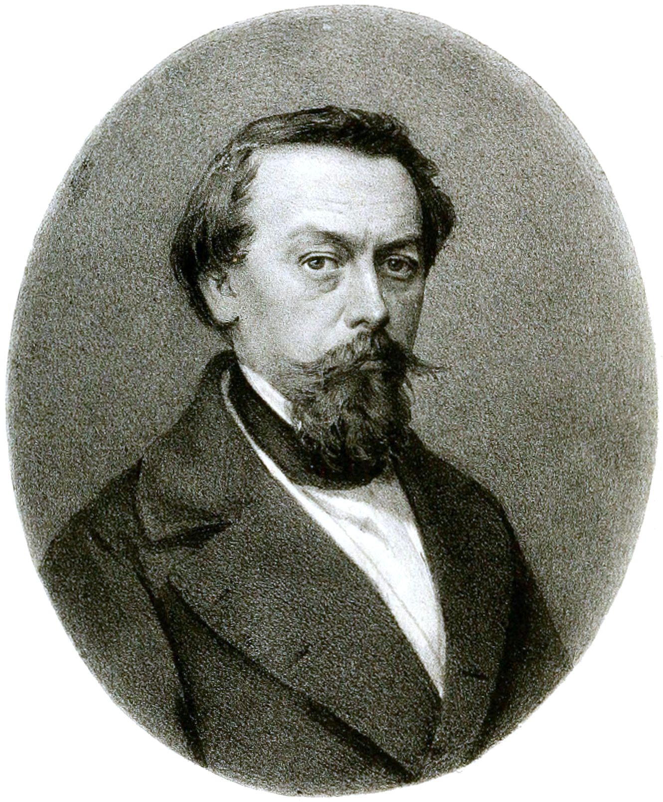 Ludwig Georg Karl Pfeiffer (1805-1887), german physician, botanist and conchologist. Portrait from 1856.